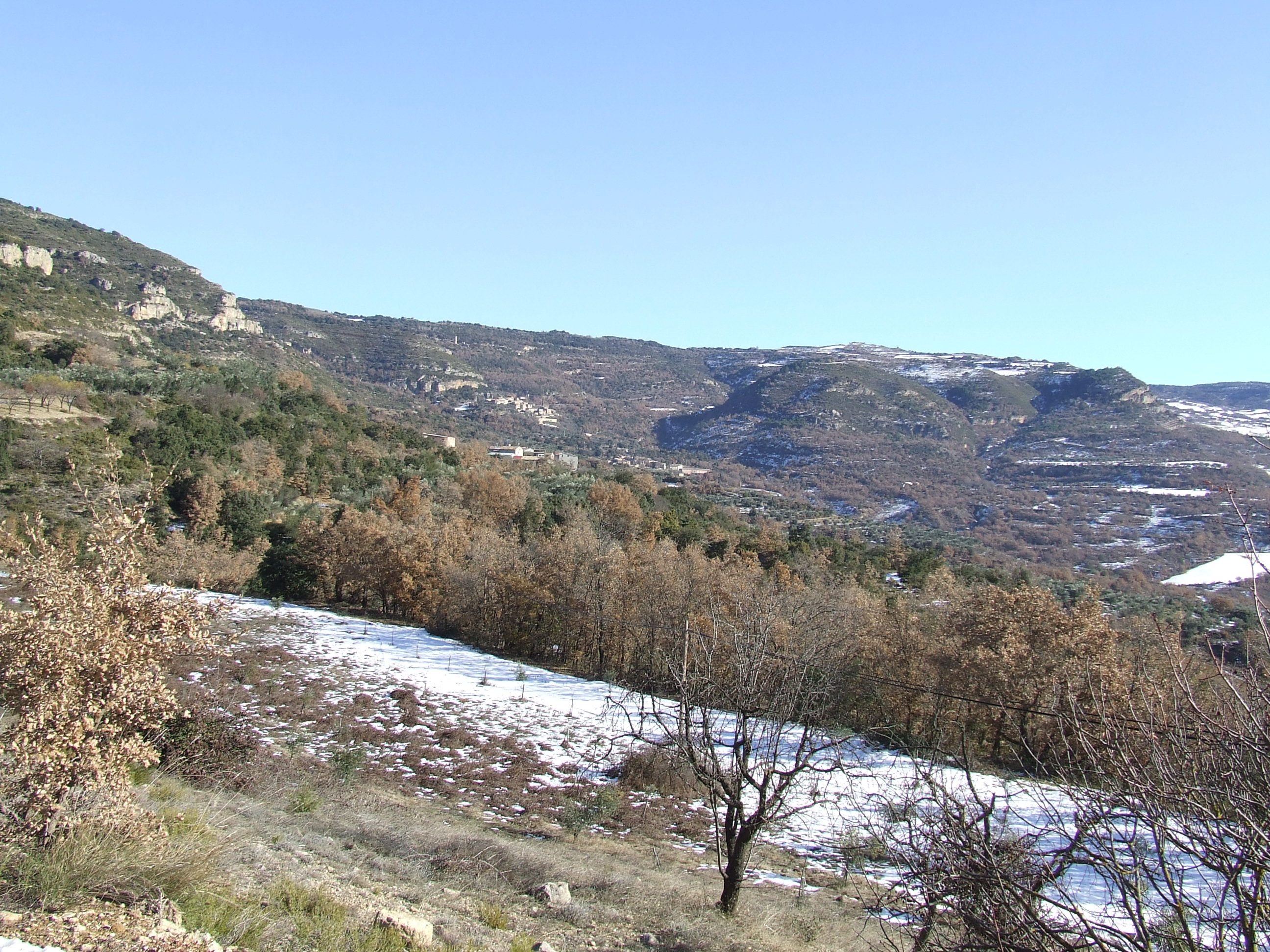 La vall de Barcedana (Aransís, Gavet de la Conca, Pallars Jussà)